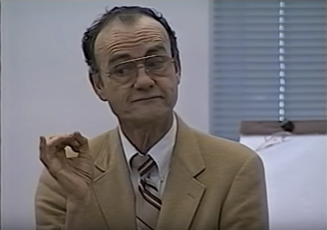 From a talk given on August 10 1990